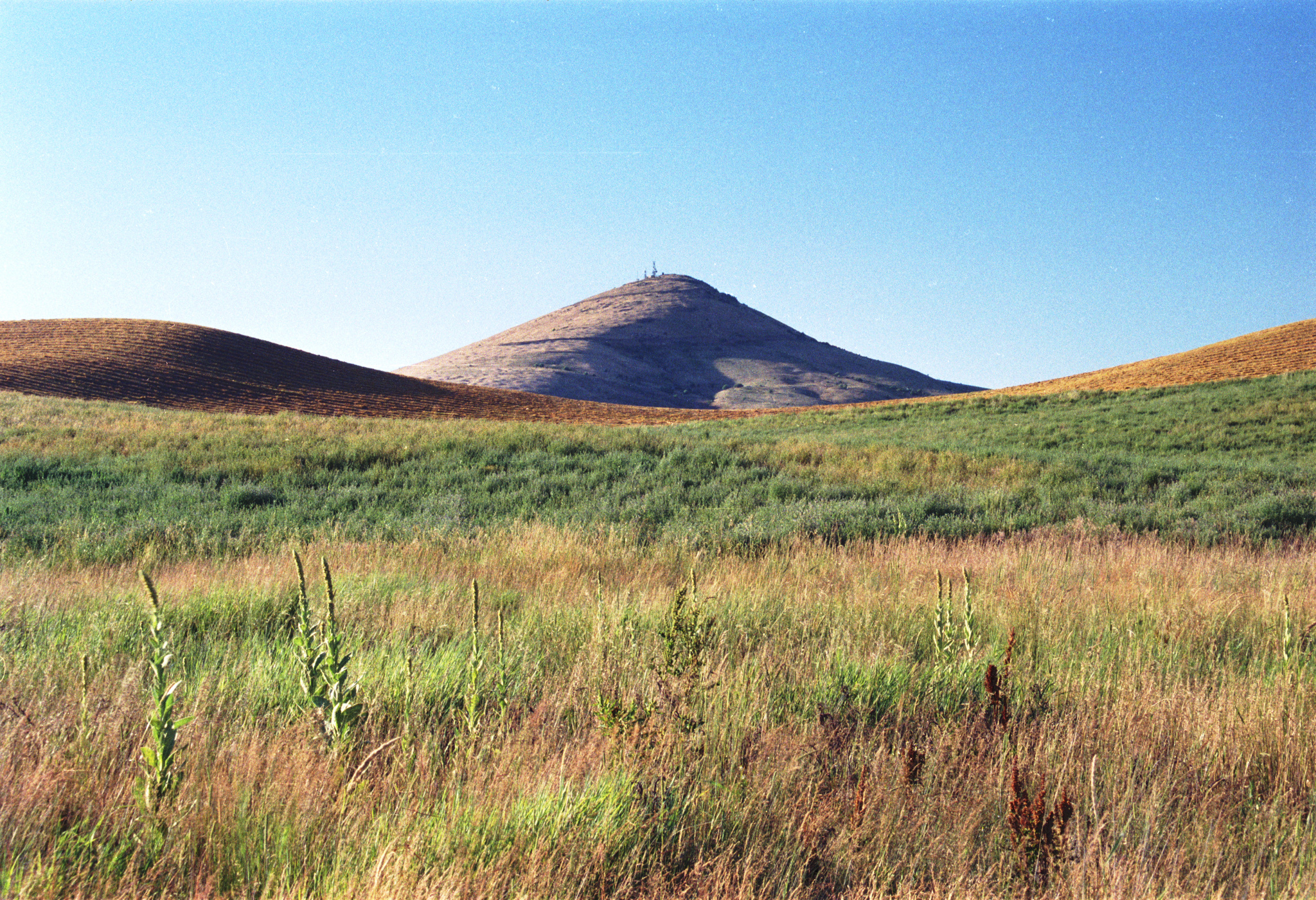 Steptoe Butte from Hume Rd